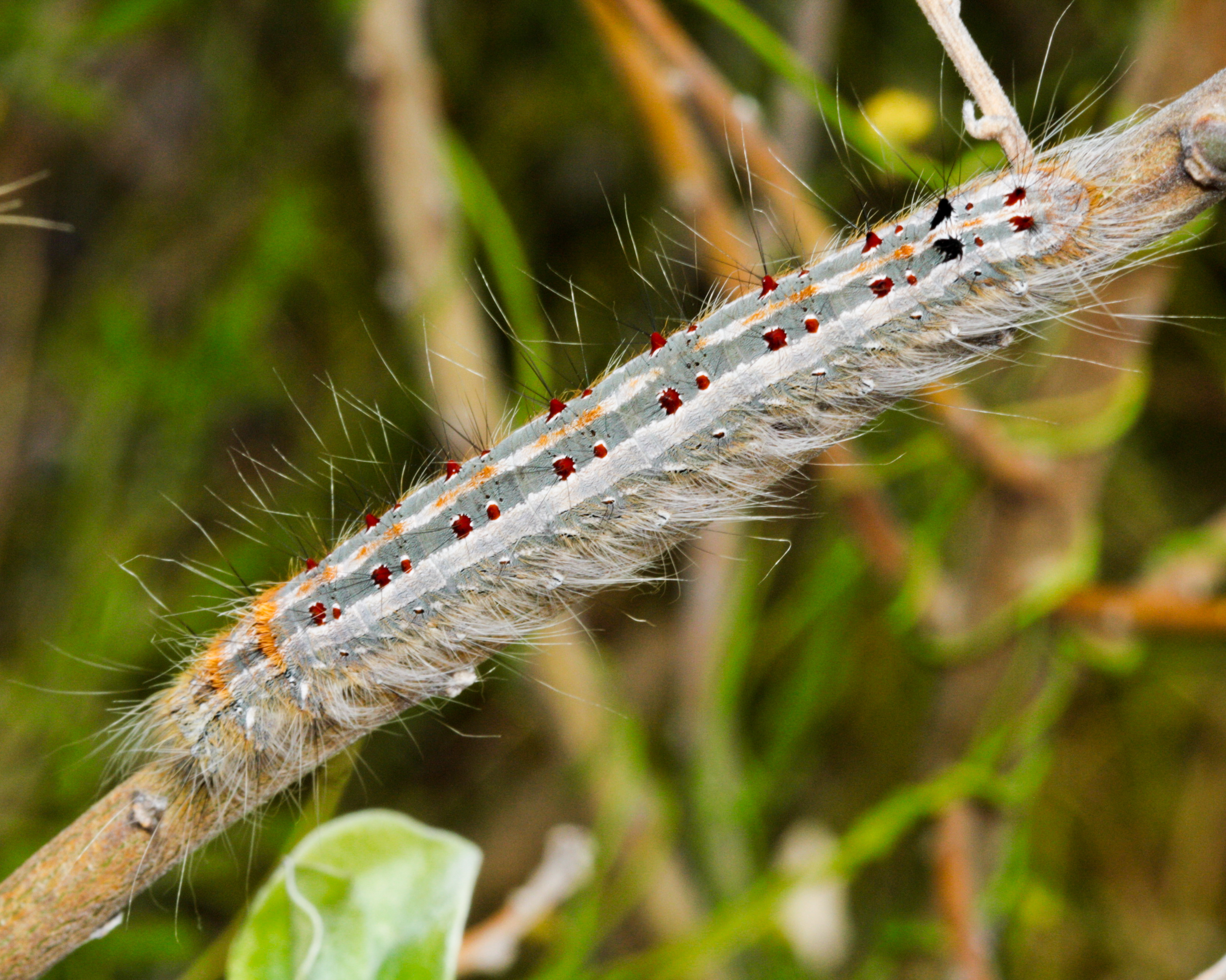 Freshly emerged adult, wings expanding